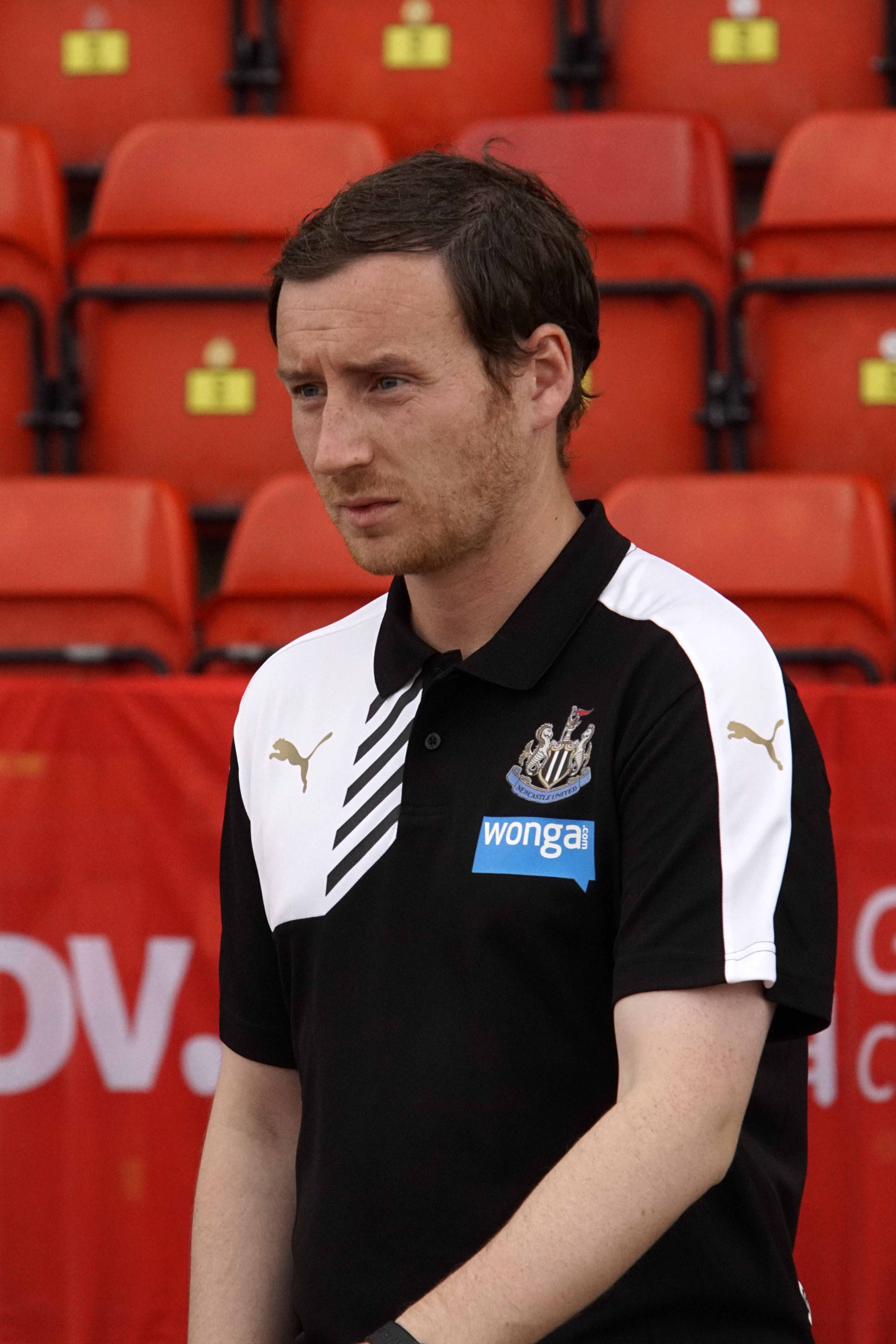 Ian Cathro as a first-team coach of Newcastle United